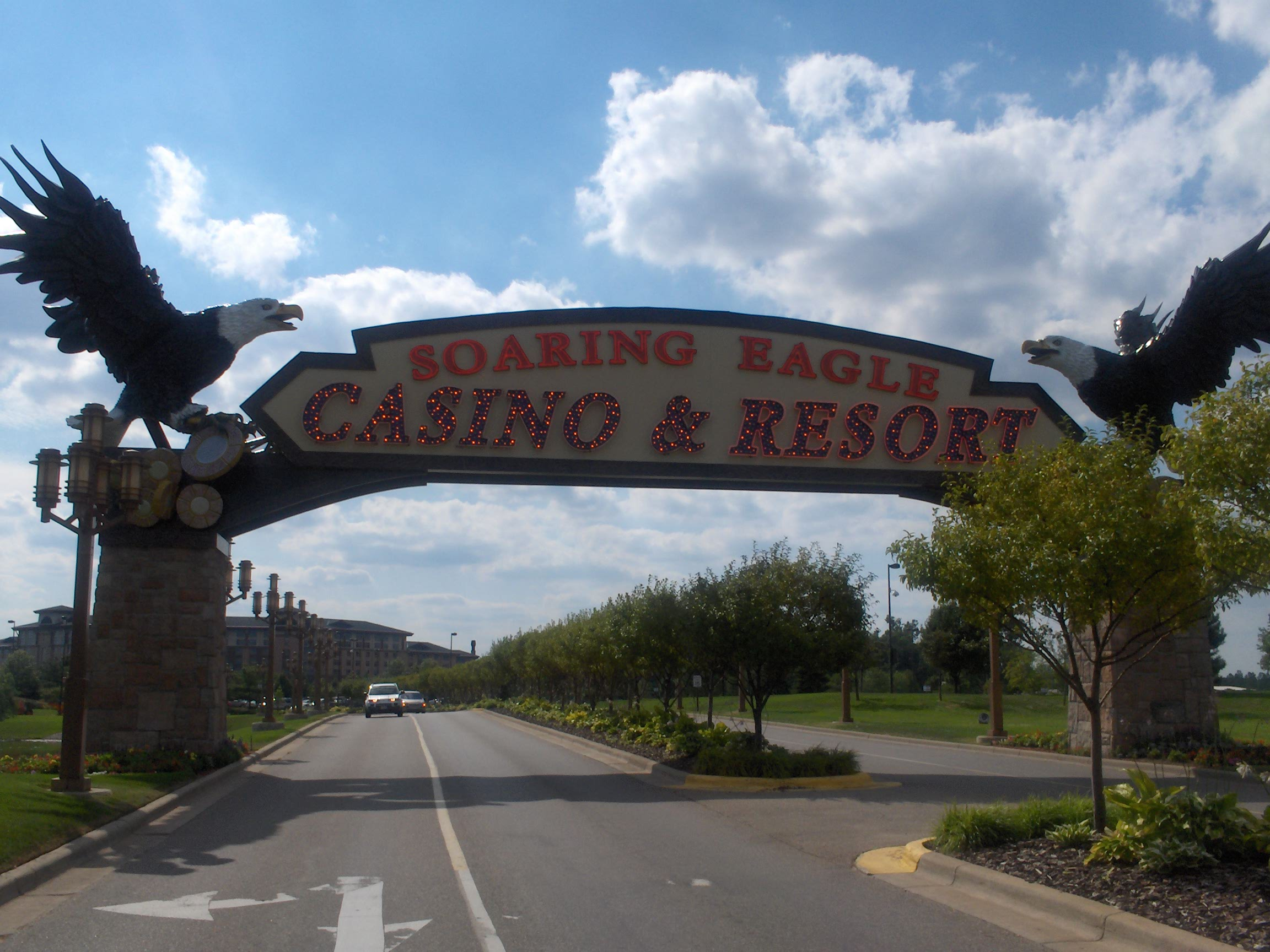 I took the picture, I own the copyright.